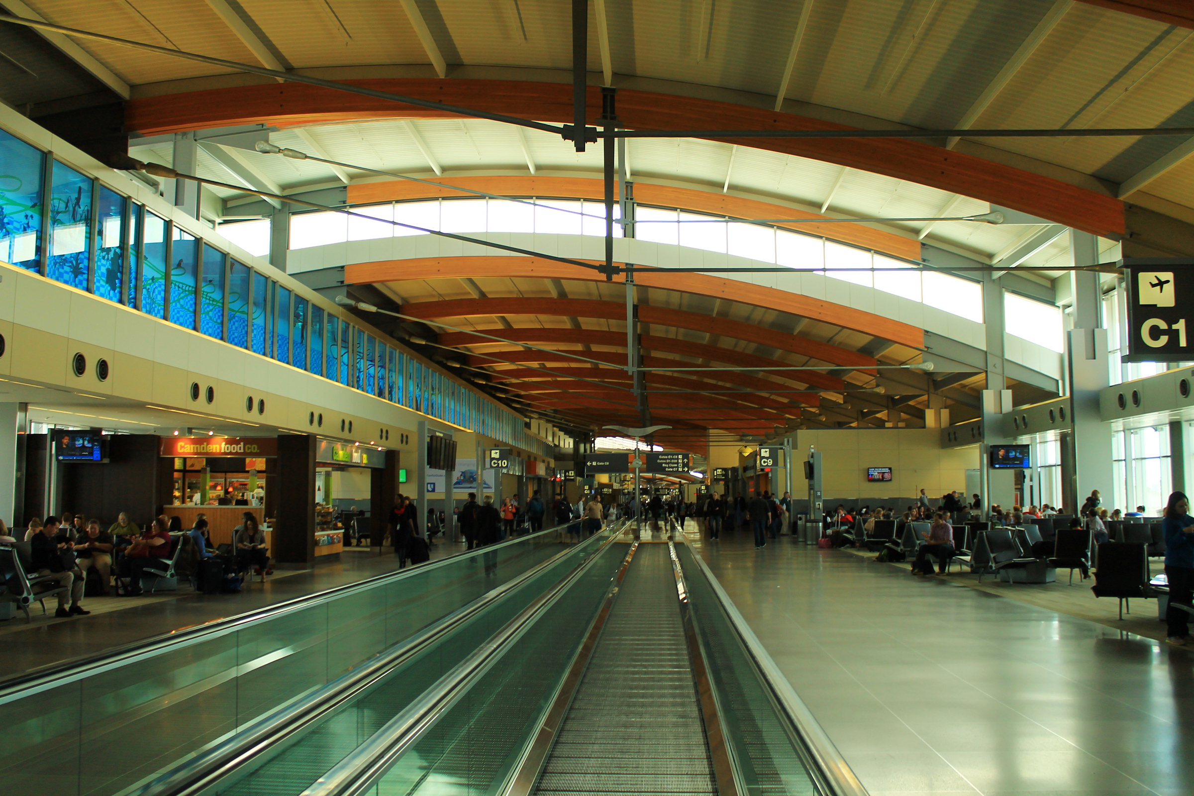 RDU-ConcourseC-Interior